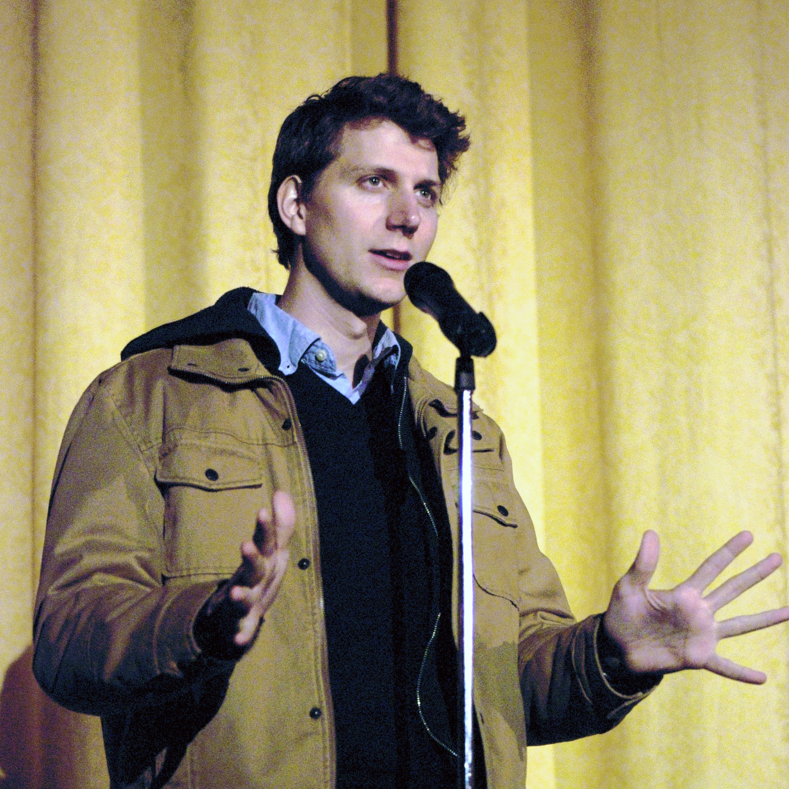 Photo taken at San Francisco Indyfest 2008